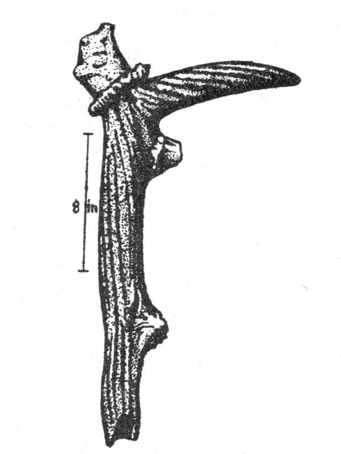 Own scan of old pic